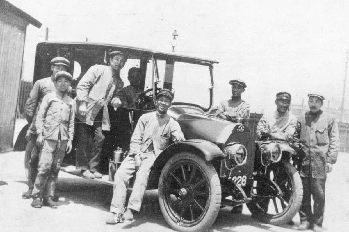 Production team workers at Mitsubishi Shipbuilding Co. Ltd standing around a Mitsubishi Model A automobile. This was Japan's first mass-produced passenger car.